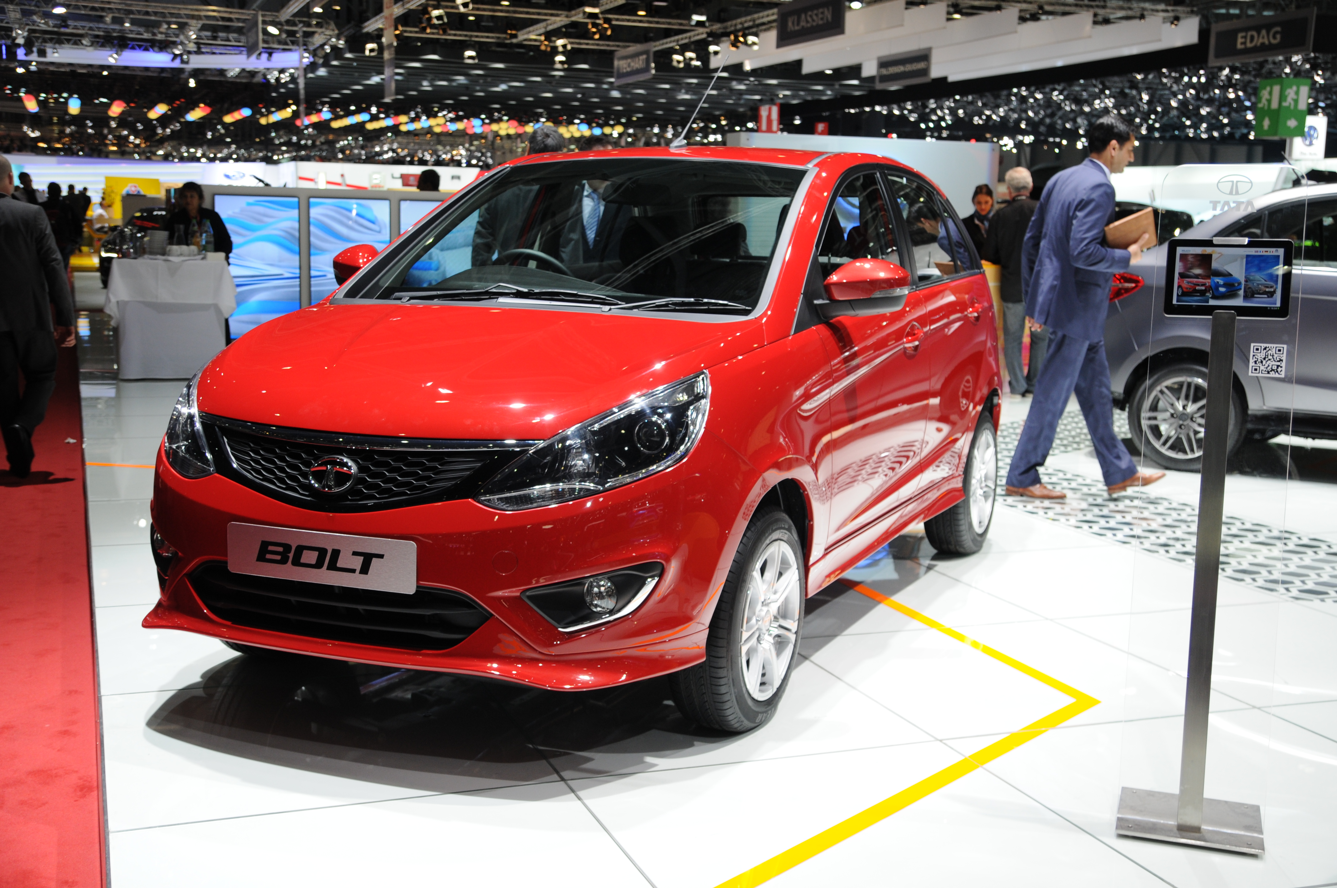 Geneva Motor Show 2014 (photo taken on the first press day)